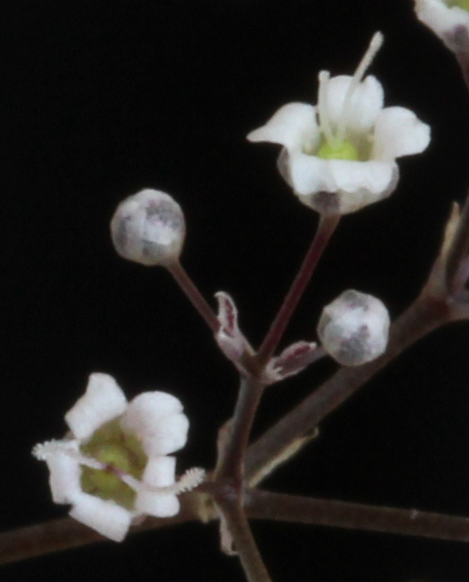 Close-up of two baby's breath (Gypsophila paniculata) flowers. Picked from roadside near the Point Betsie lighthouse, Michigan. Each flower is roughly 1 mm (less than 1/16th in) across.